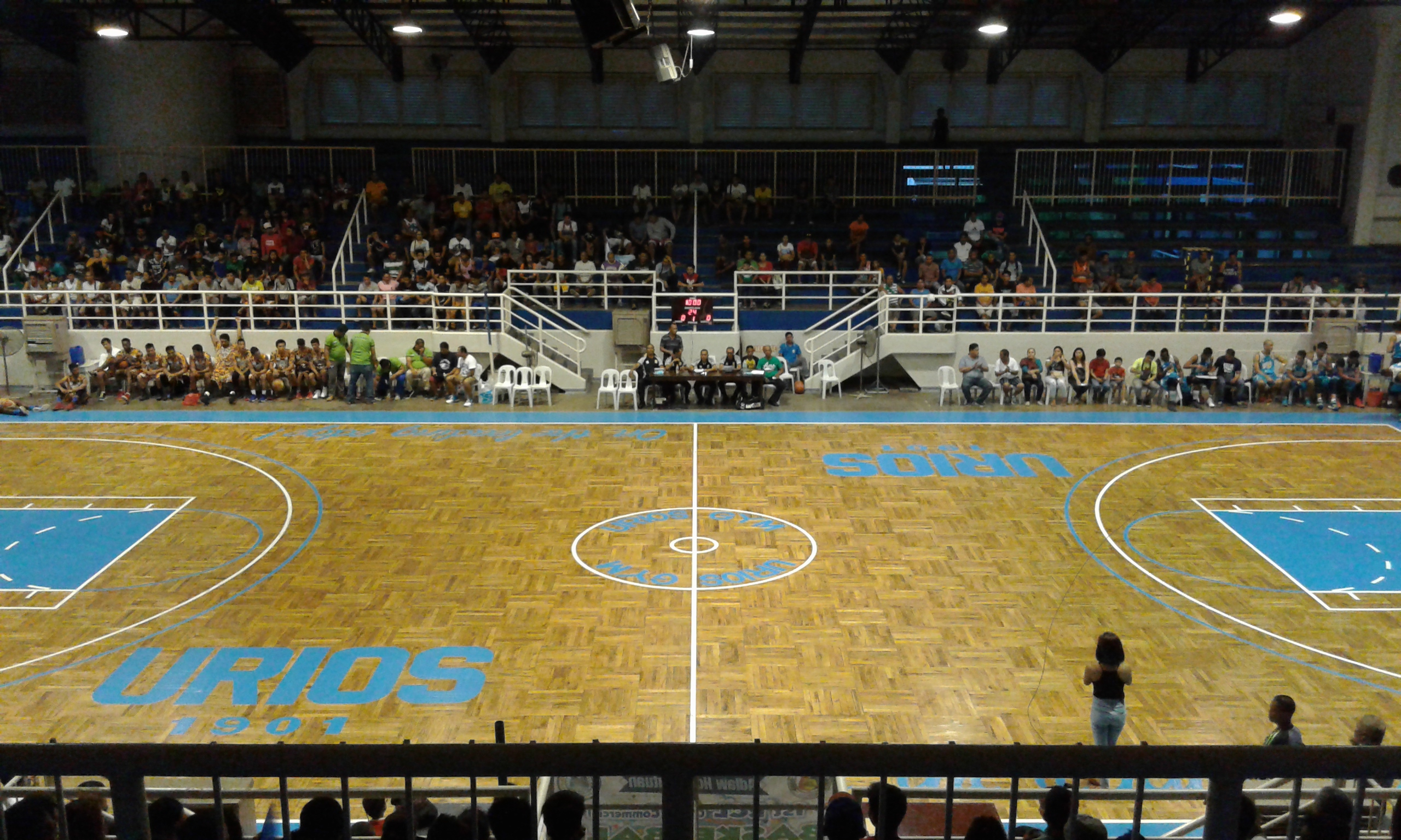 This photo was shot during the 1st RCL Basketball Tournament in Butuan.